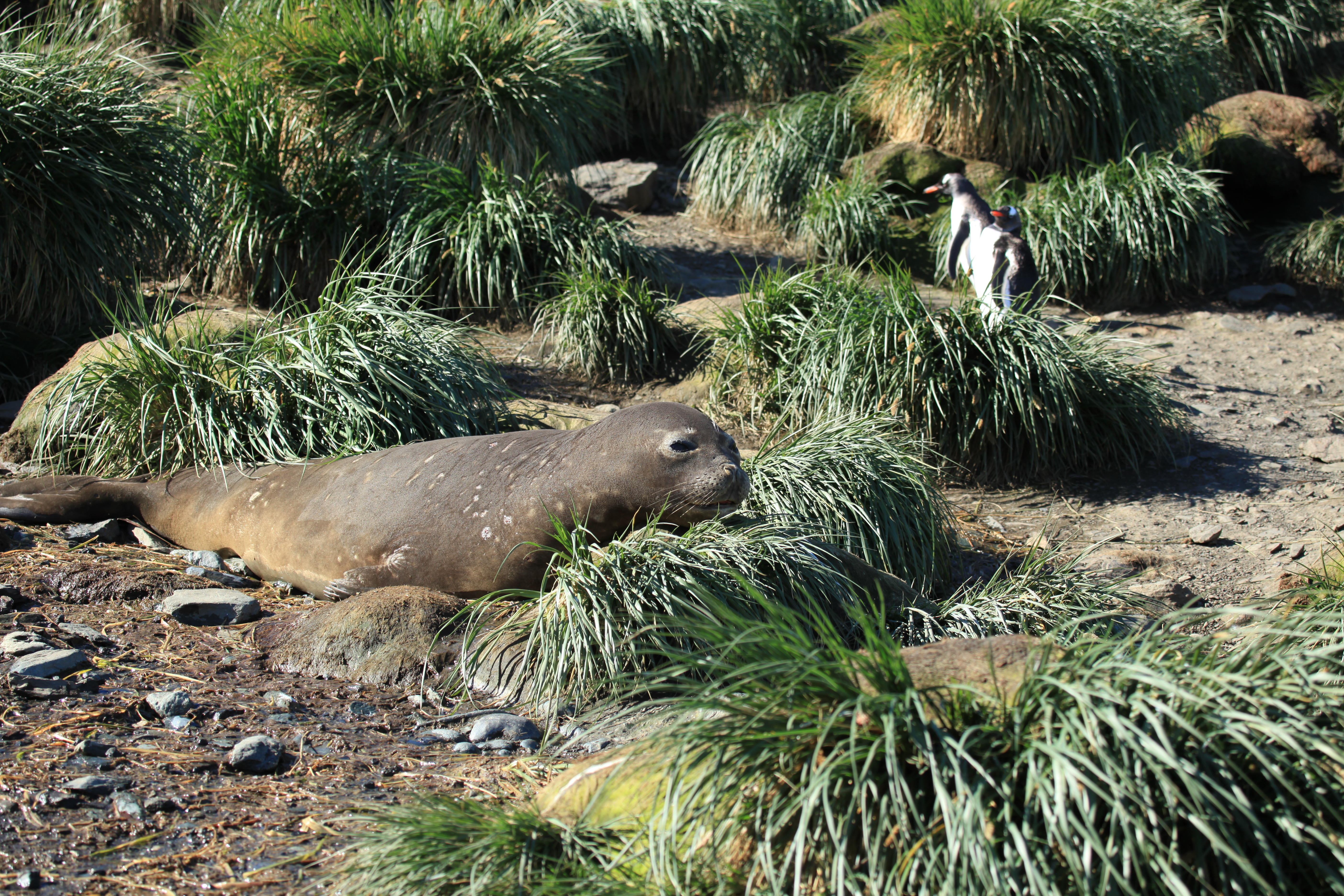 At Cooper Bay, South Georgia.